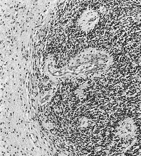 Arising in the background of many otherwise well-differentiated ependymomas are lobules of increased cell density. In limited number this finding does not justify a diagnosis of anaplastic ependymoma.